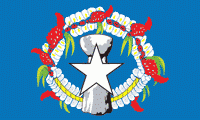 Flag of North Marian